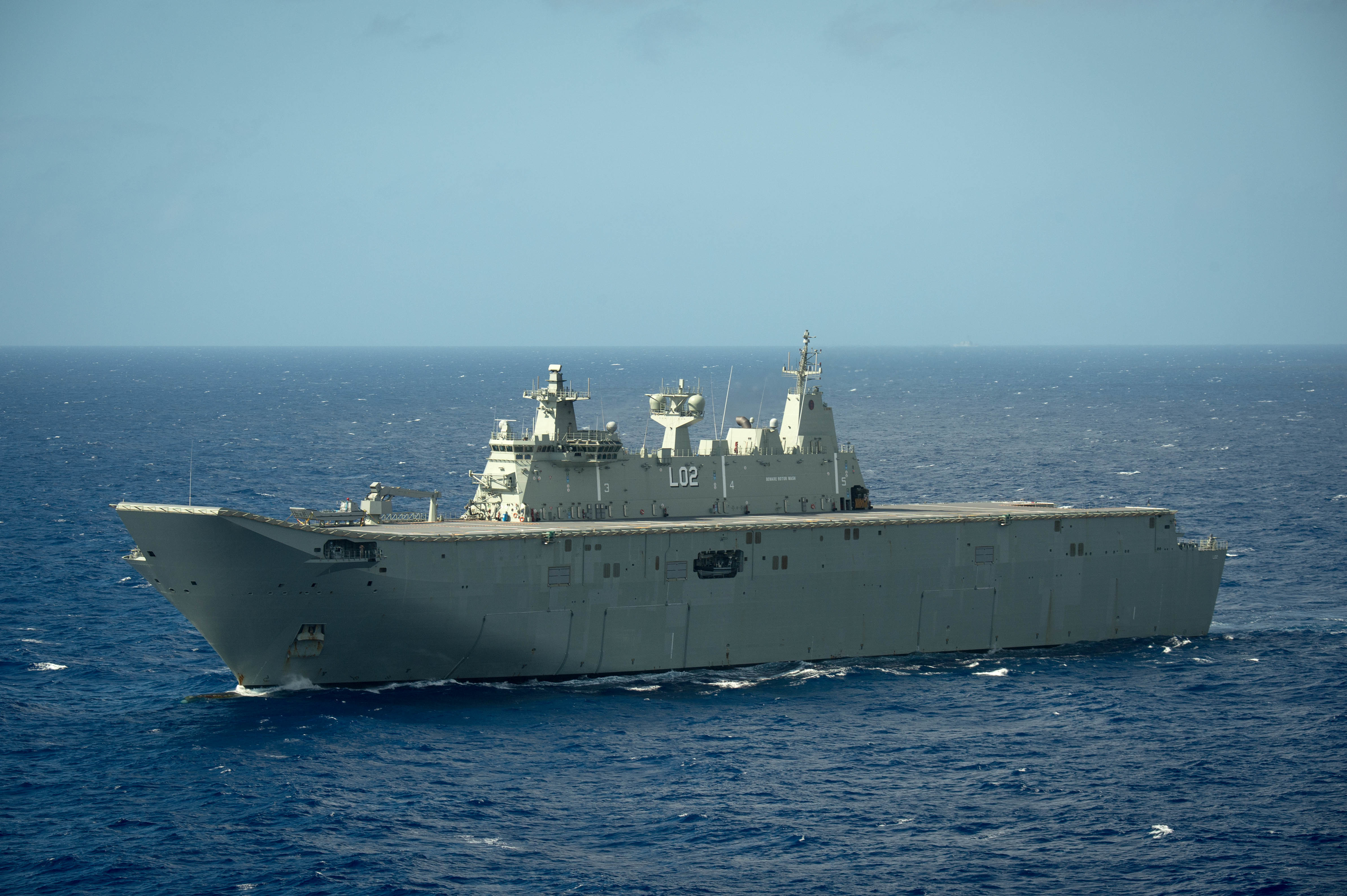 160728-N-SI773-1788 PACIFIC OCEAN (July 28, 2016) Royal Australian Navy Canberra class amphibious ship HMAS Canberra (L02) steams in close formation as one of 40 ships and submarines representing 13 international partner nations during Rim of the Pacific 2016. Twenty-six nations, more than 40 ships and submarines, more than 200 aircraft, and 25,000 personnel are participating in RIMPAC from June 30 to Aug. 4, in and around the Hawaiian Islands and Southern California. The world's largest international maritime exercise, RIMPAC provides a unique training opportunity that helps participants foster and sustain the cooperative relationships that are critical to ensuring the safety of sea lanes and security on the world's oceans. RIMPAC 2016 is the 25th exercise in the series that began in 1971. (U.S. Navy Combat Camera photo by Mass Communication Specialist 1st Class Ace Rheaume/Released)